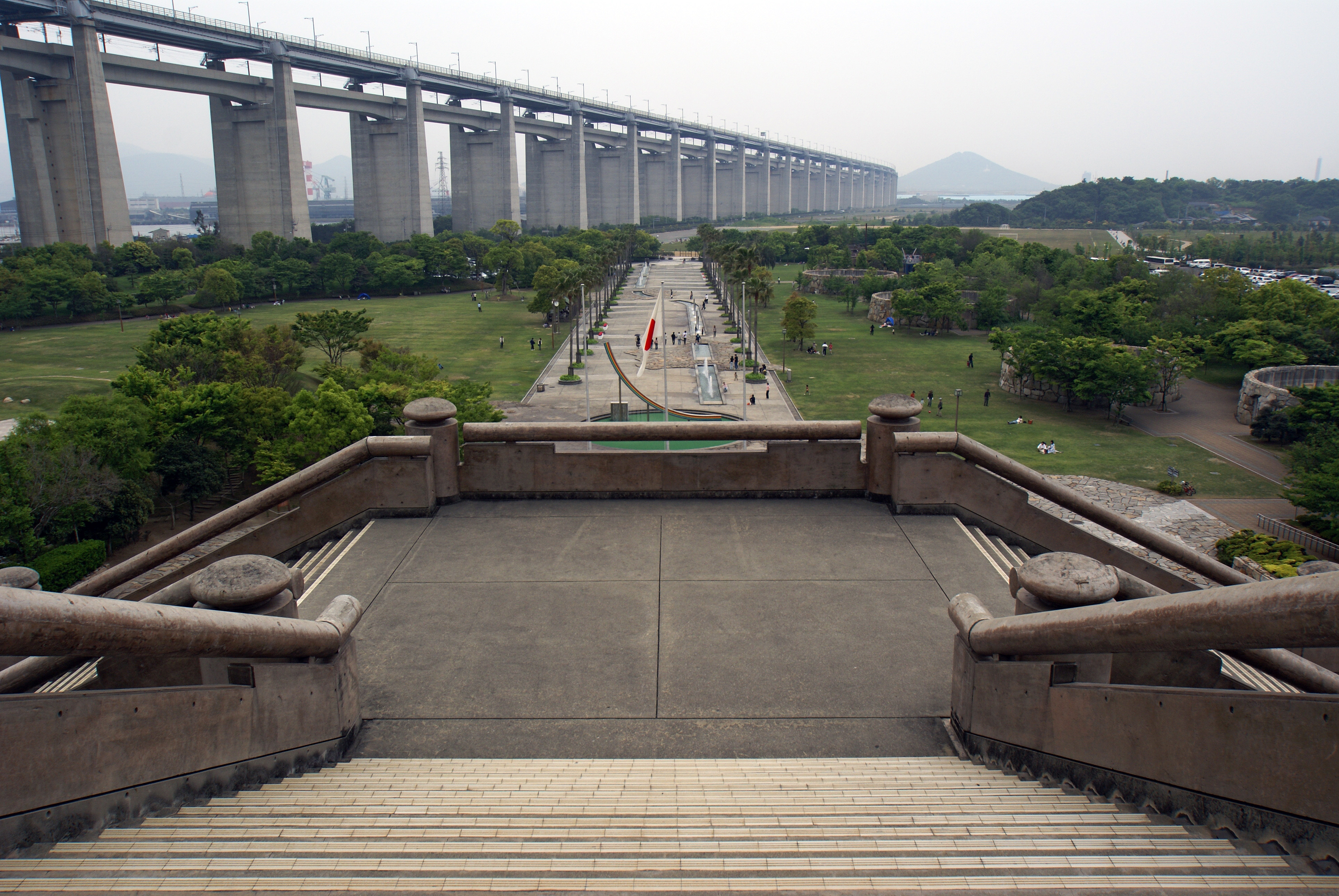 Great Seto Bridge Memorial Park in Sakaide, Kagawa prefecture, Japan